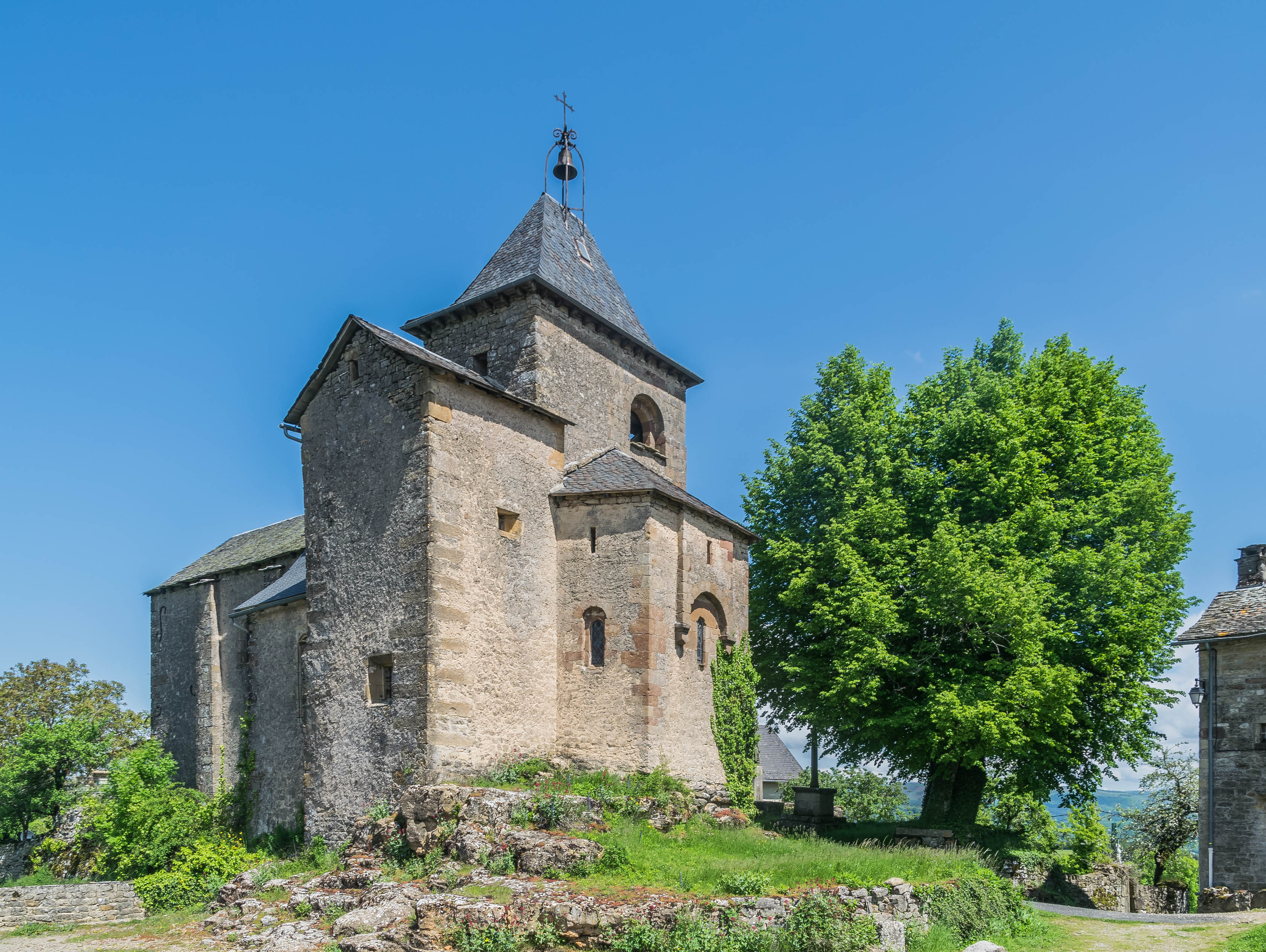 Saint John the Baptist Church in La Roque-Valzergues, commune of Saint-Saturnin-de-Lenne, Aveyron, France